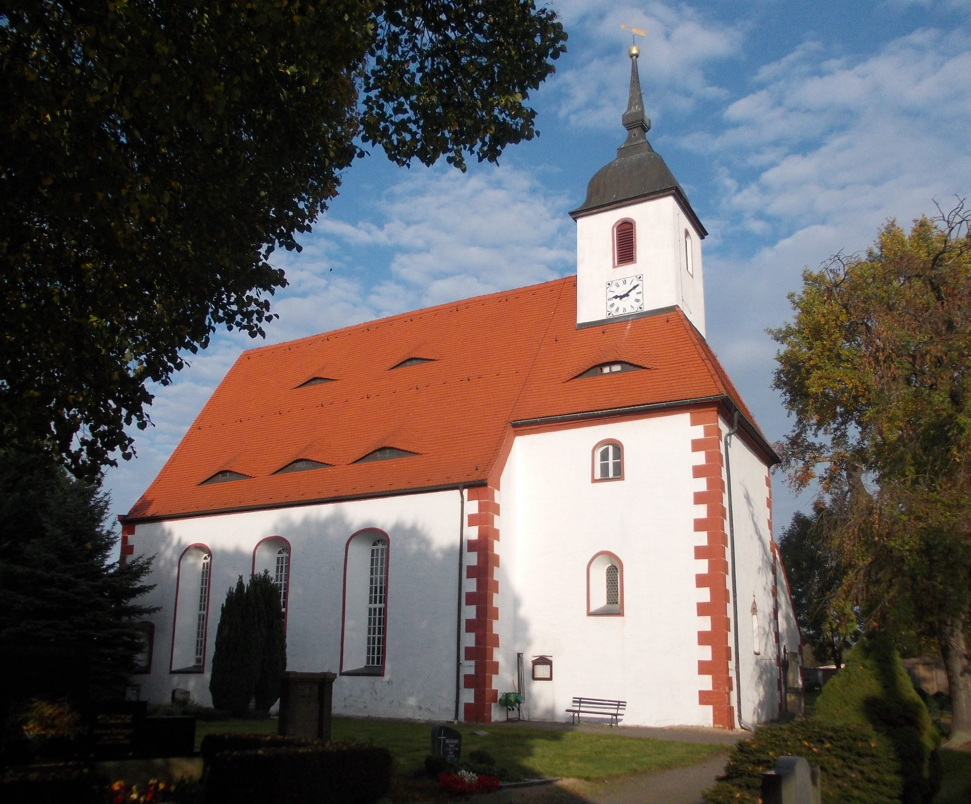 Kühren church (Wurzen, Leipzig district, Saxony)